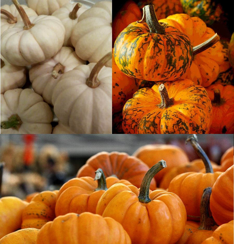 Different colors Montage.